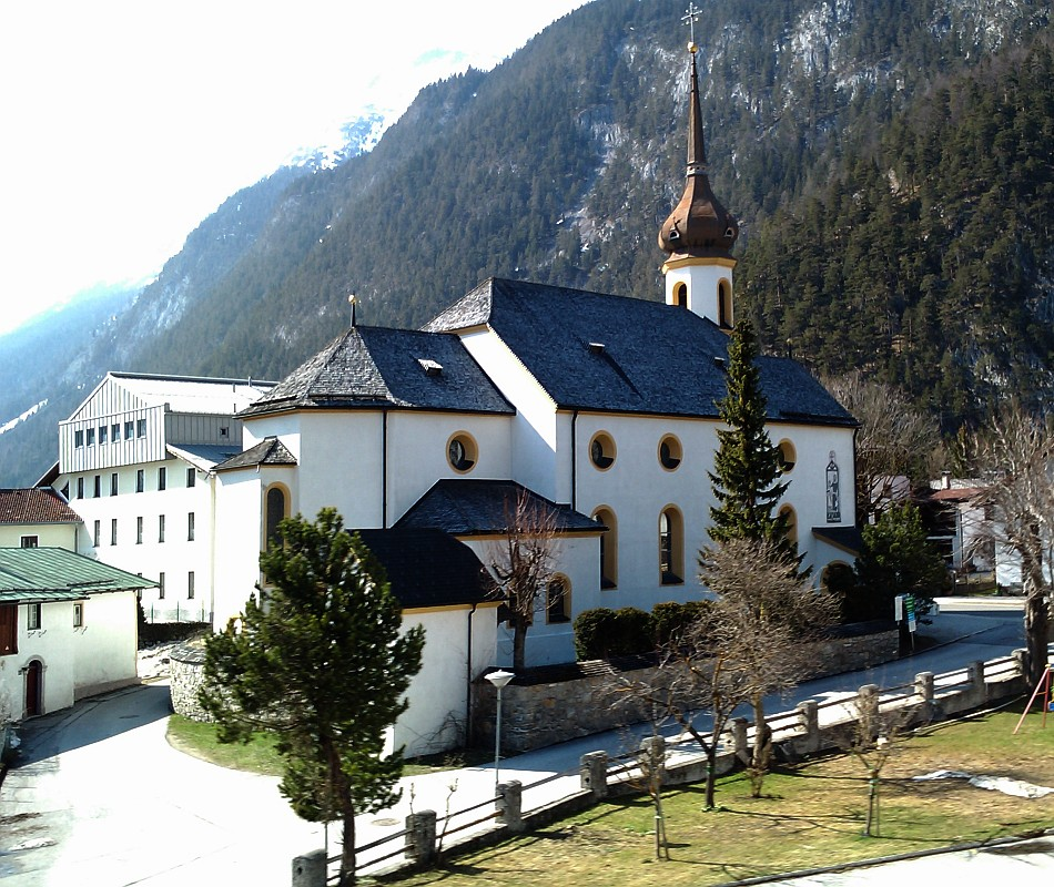 Church Mariahilf in Scharnitz, Austria